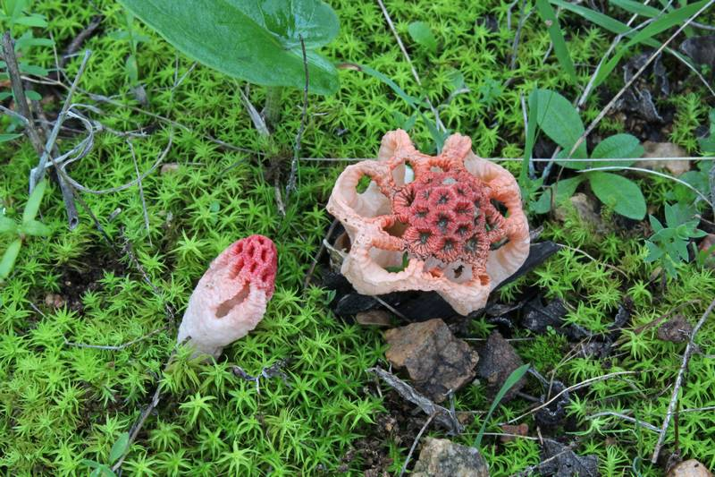 Colus hirudinosus Cavalier & Séchier Image location: Tasonis , Sinnai , Italy Recognized by sight For more information about this, see the observation page at Mushroom Observer.